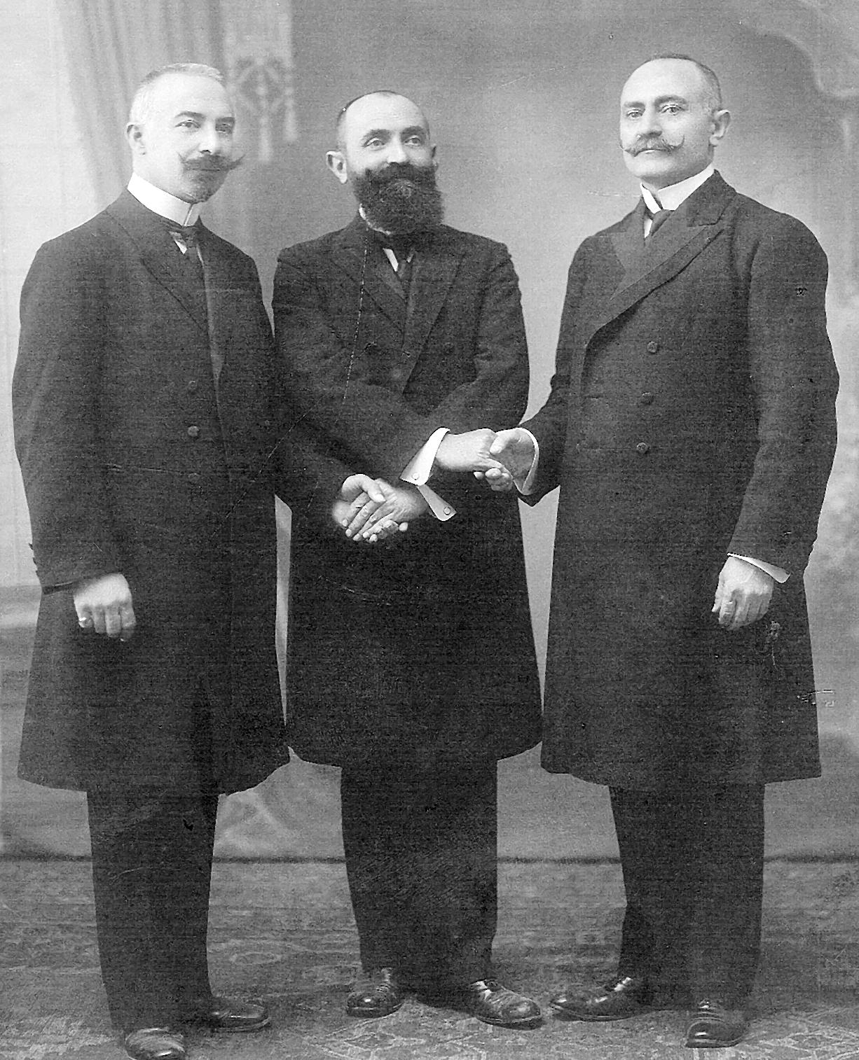 Dimitrios Kontorepas, Georgios Divolis and Athanasios_Manos.